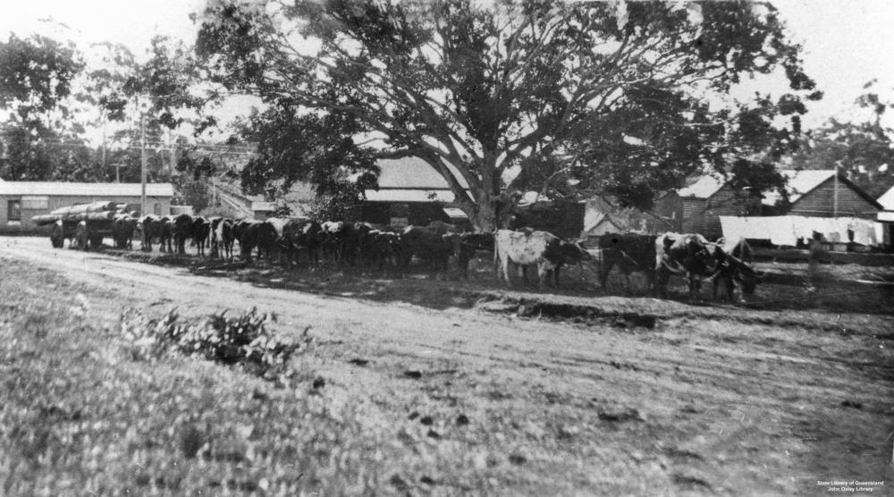 Team of bullocks hauling a wagon of logs in Ballinger Cresent, Buderim, 1927 Team of bullocks hauling a wagon of logs in Ballinger Cresent, Buderim. The old tramway station is behind the wagon.